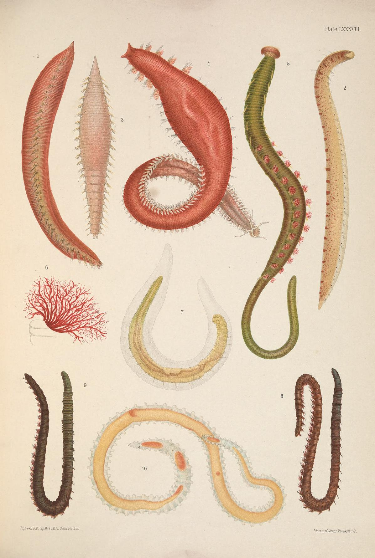 A monograph of the British marine annelids 1915 LXXXVIII Plate text 1 Ophelia limacina (Rathke, 1843) Opheliidae 2 Polyophthalmus pictus (Dujardin, 1839) Opheliidae 3 Travisia forbesii Johnston, 1840 Travisiidae included in Opheliidae here 4 Scalibregma inflatum Rathke, 1843 Scalibregmatidae 5, 6, 7 Arenicola marina (Linnaeus, 1758) Arenicolidae 8 Arenicola ecaudata = Arenicolides ecaudata (Johnston, 1835) 9 Arenicola branchialis = Arenicolides branchialis (Audouin & Milne Edwards, 1833) 10 Ephesia gracilis = Sphaerodorum gracilis (Rathke, 1843) Sphaerodoridae